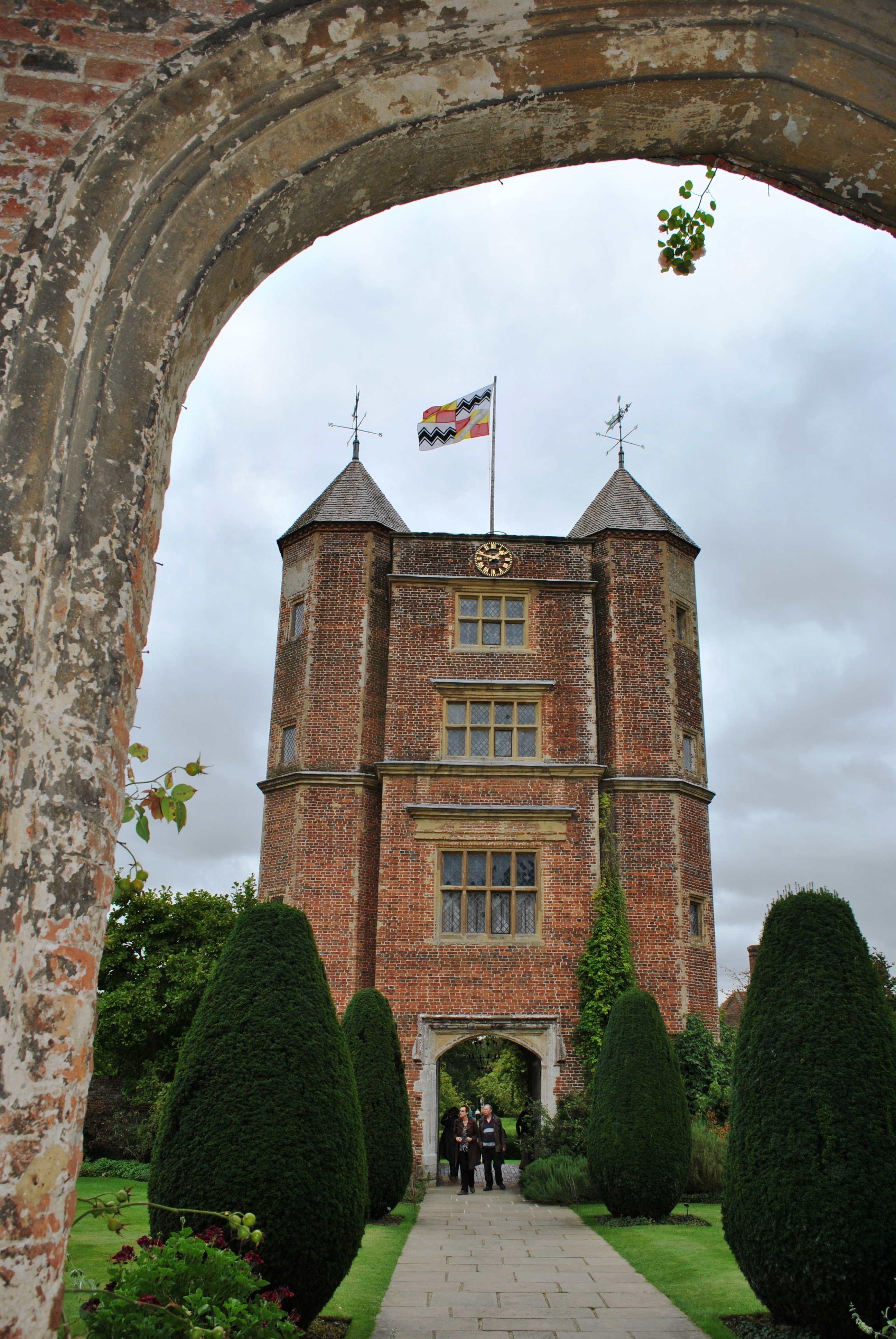 Image originally published in Queer Places: Retracing the Steps of LGBTQ people around the World Authored by Elisa Rolle